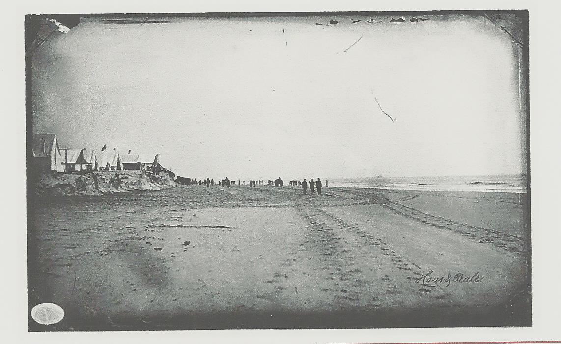 Morris Island, South Carolina, American Civil War Summary by the Library of Congress: Photo shows tents and soldiers on beach of Morris Island. In distance, ironclads, including USS New Ironsides and five monitor-class warships are in action against Fort Sumter and Fort Moultrie in Charleston harbor. (Source: 99 Historic Images of Civil War Charleston, ed. by Garry Adelman, John Richter, and Bob Zeller, Center for Civil War Photography, 2009, p. 18) Identifed taken September 7, 1863